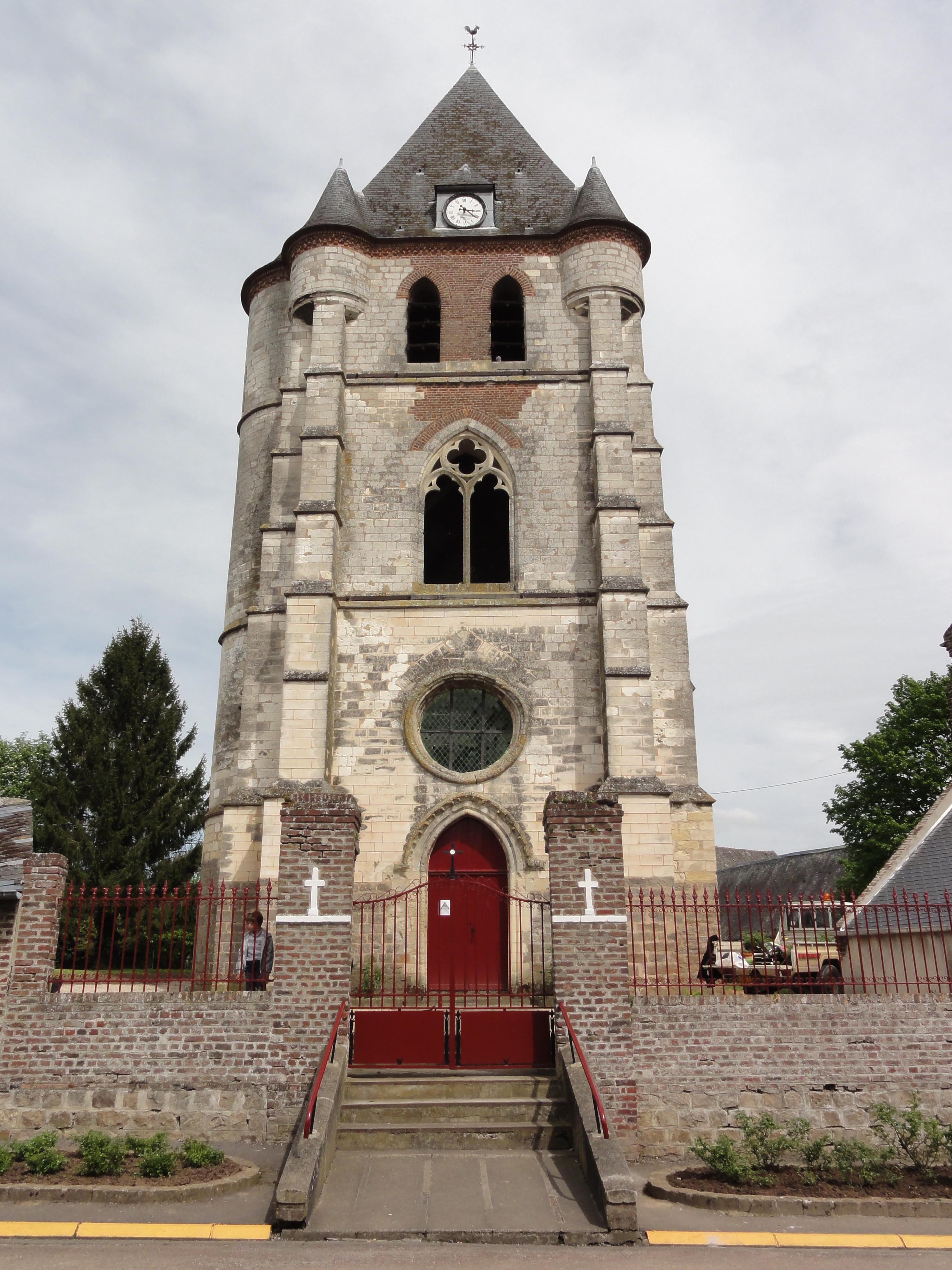 Nouvion-et-Catillon (Aisne) église